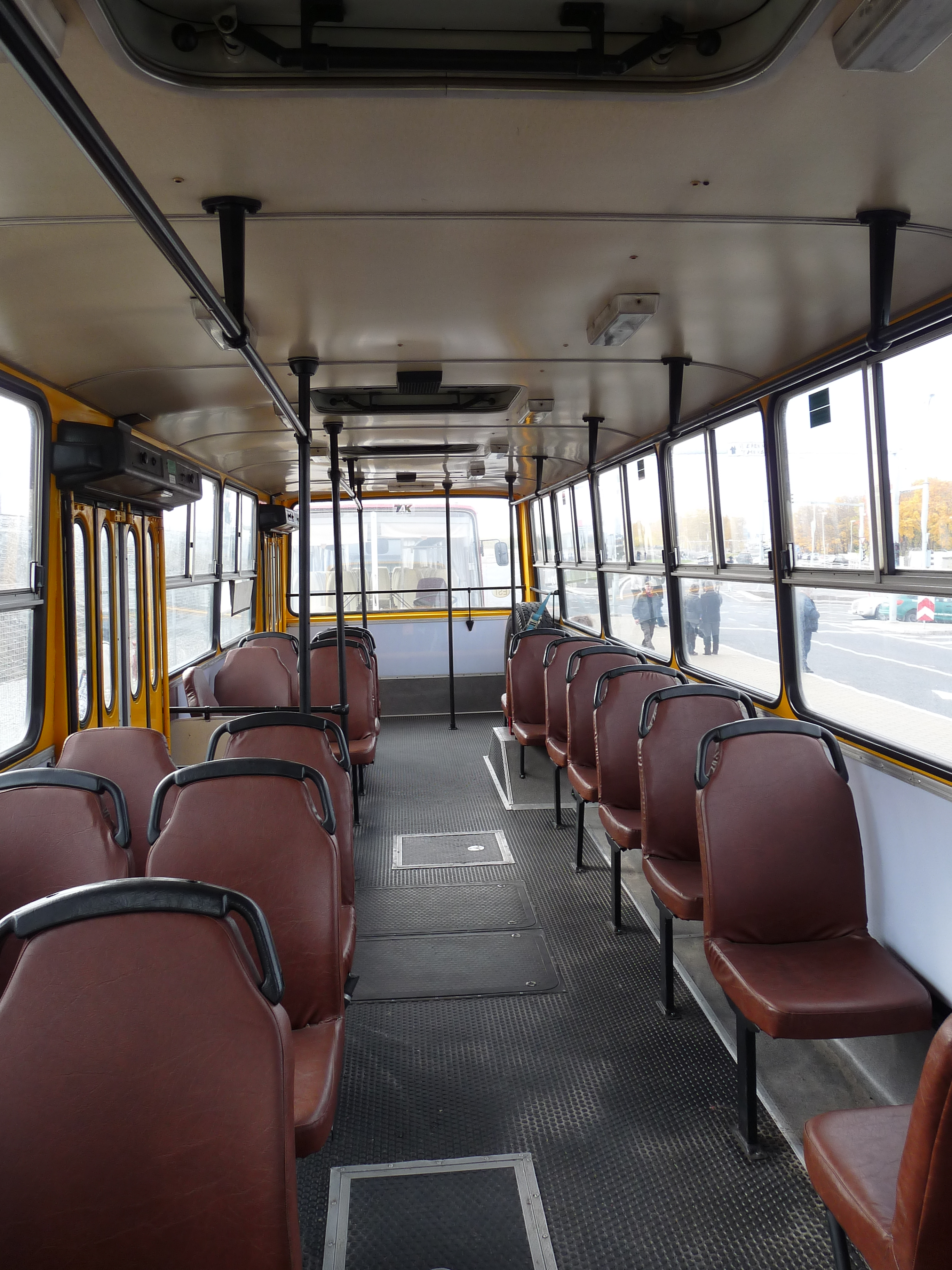 Ikarus 260 in Tallinn, Estonia